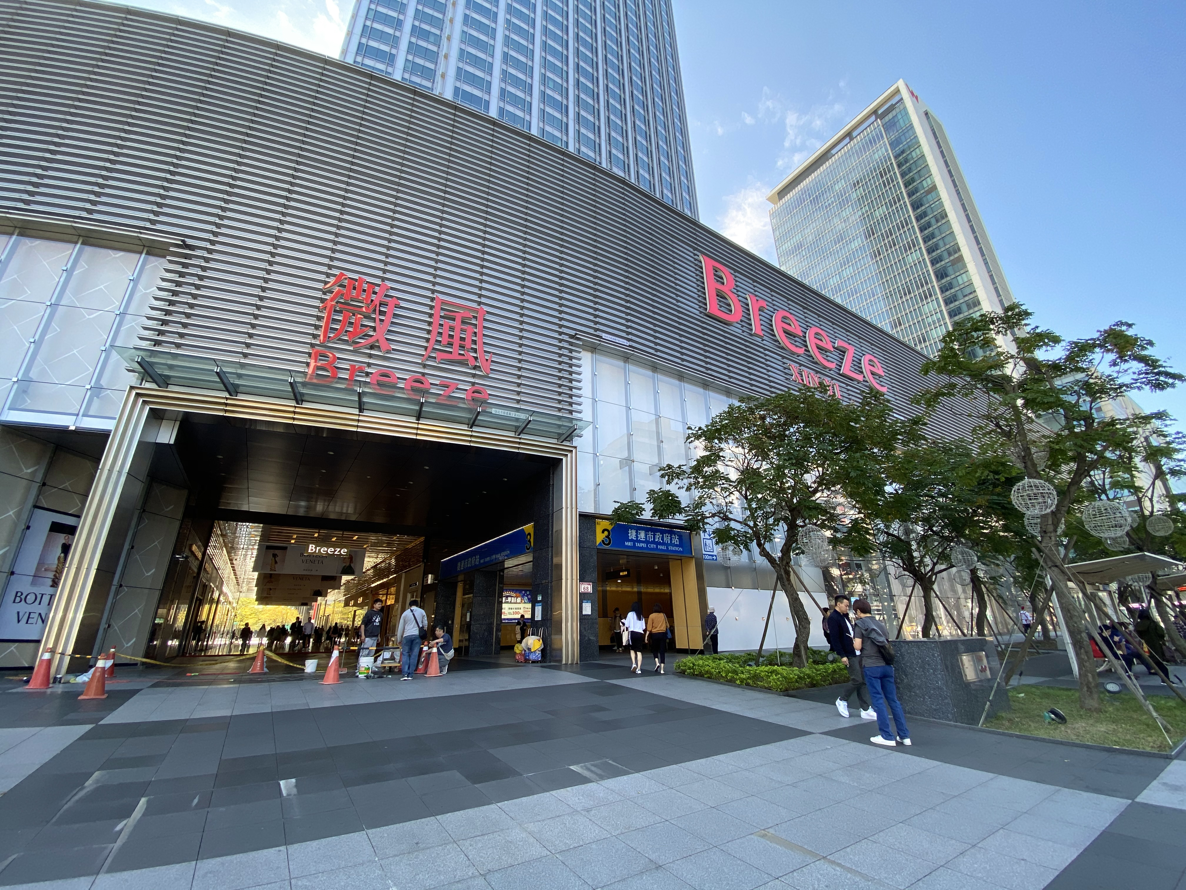 Cathay Landmark outside Taipei City Hall Station Exit